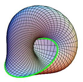 Mobius strip deformed to have a circular boundary. Made with Mathematica.